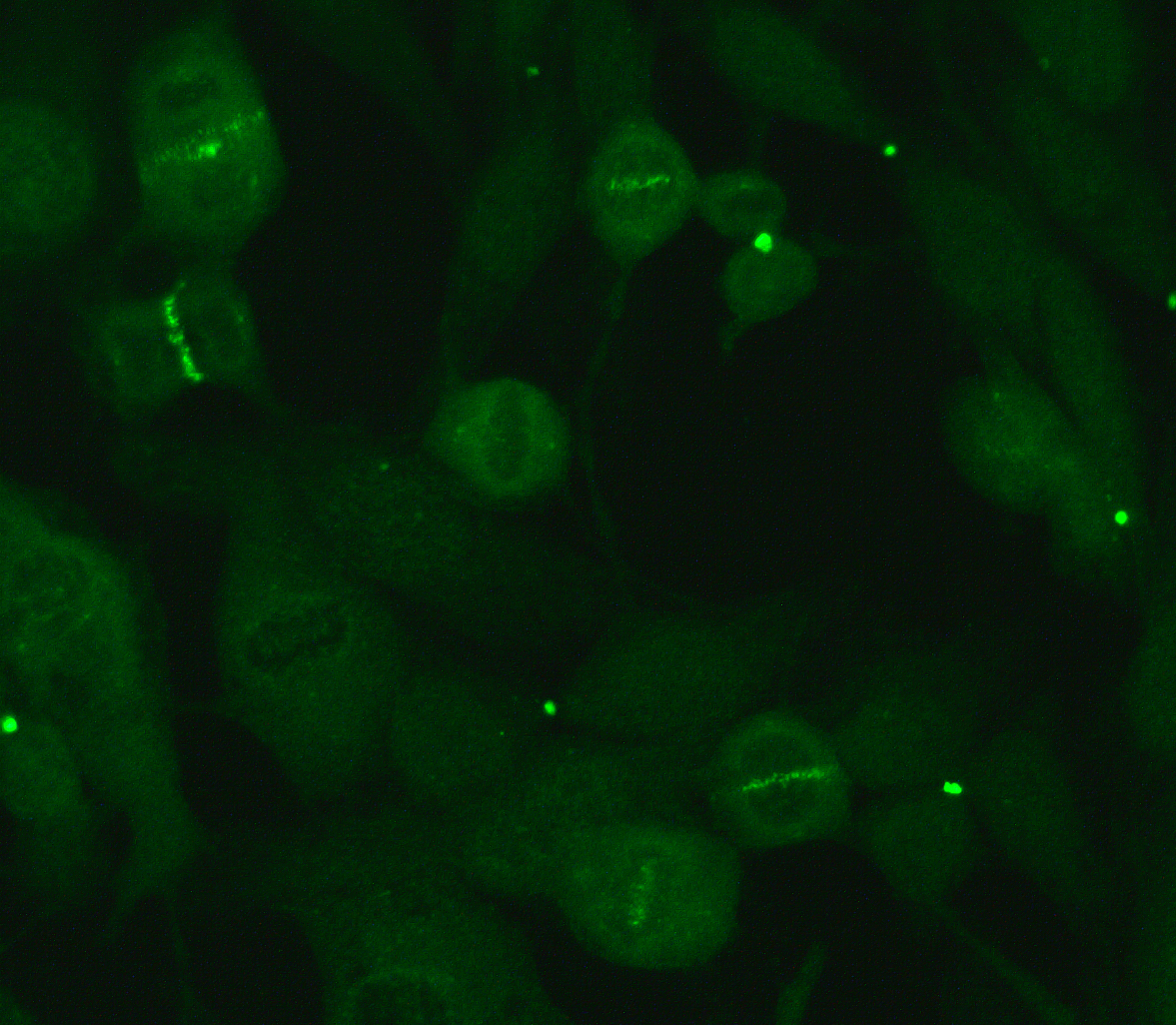 Immunofluorescence pattern of Mitotic Spindle Apparatus type 2 (Midbody) antibodies. Produced using serum from a patient on HEp-20-10 cells with a FITC conjugate.